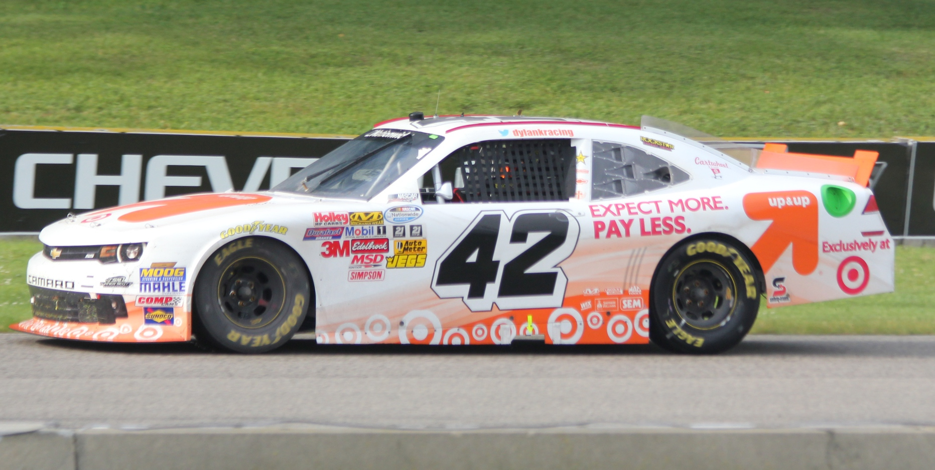 The drivers side of Dylan Kwasniewski Nationwide car during the 2014 Gardner Denver 200 at Road America. Taken racing up the hill between turns 5 and 6.